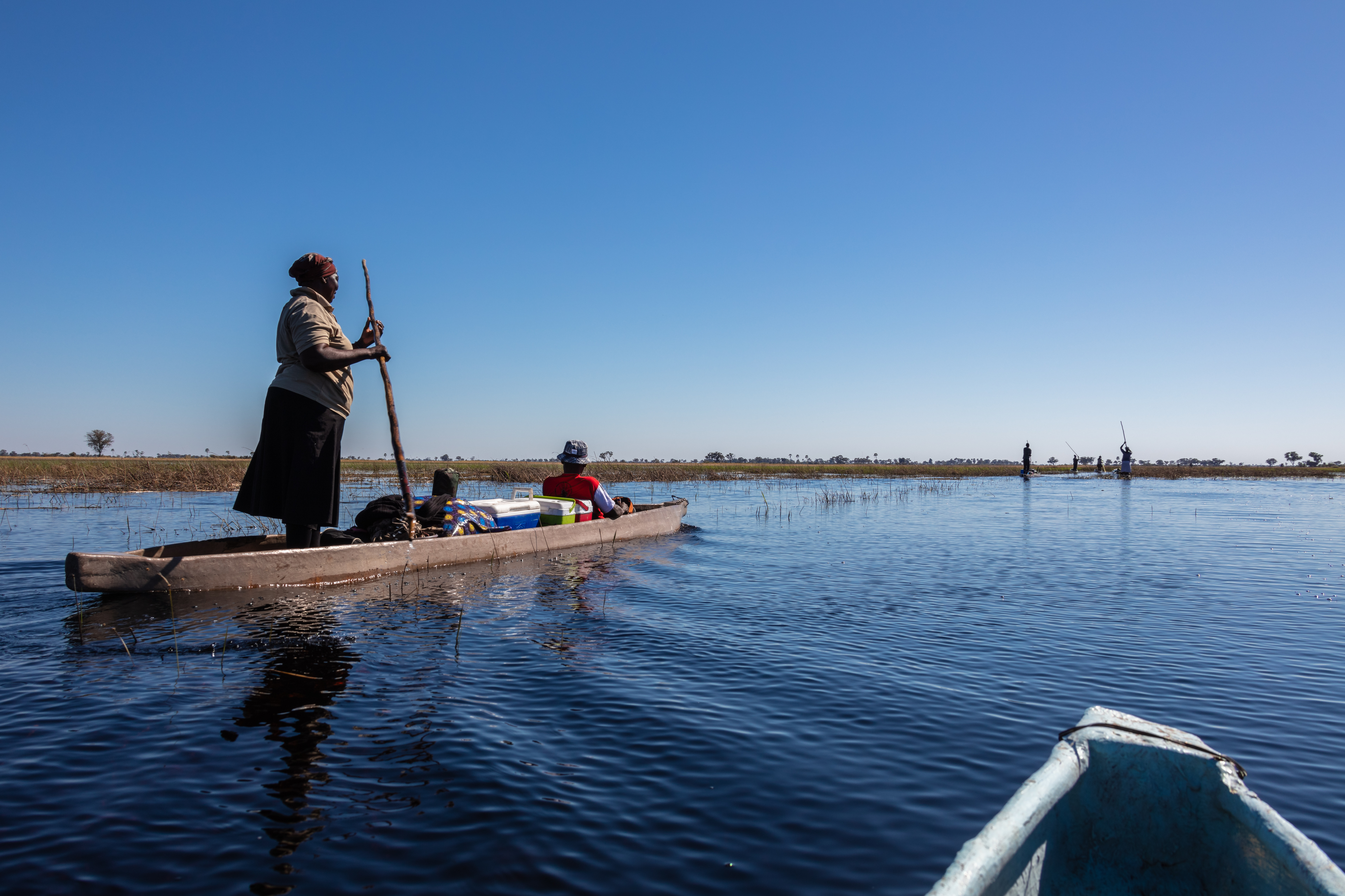 Crossing the Okavango Delta in makoro, Botswana